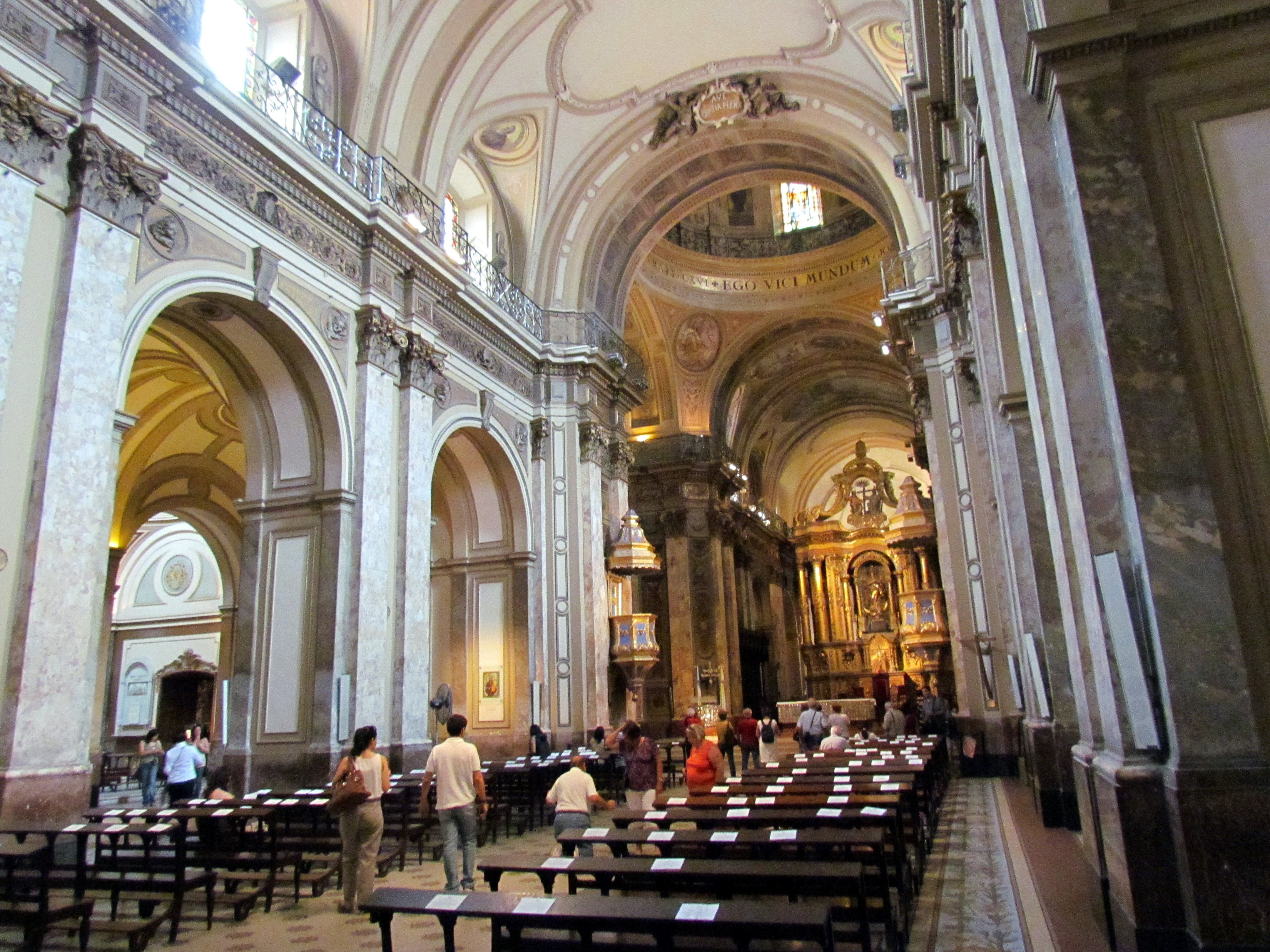 Buenos Aires Metropolitan Cathedral, Argentina